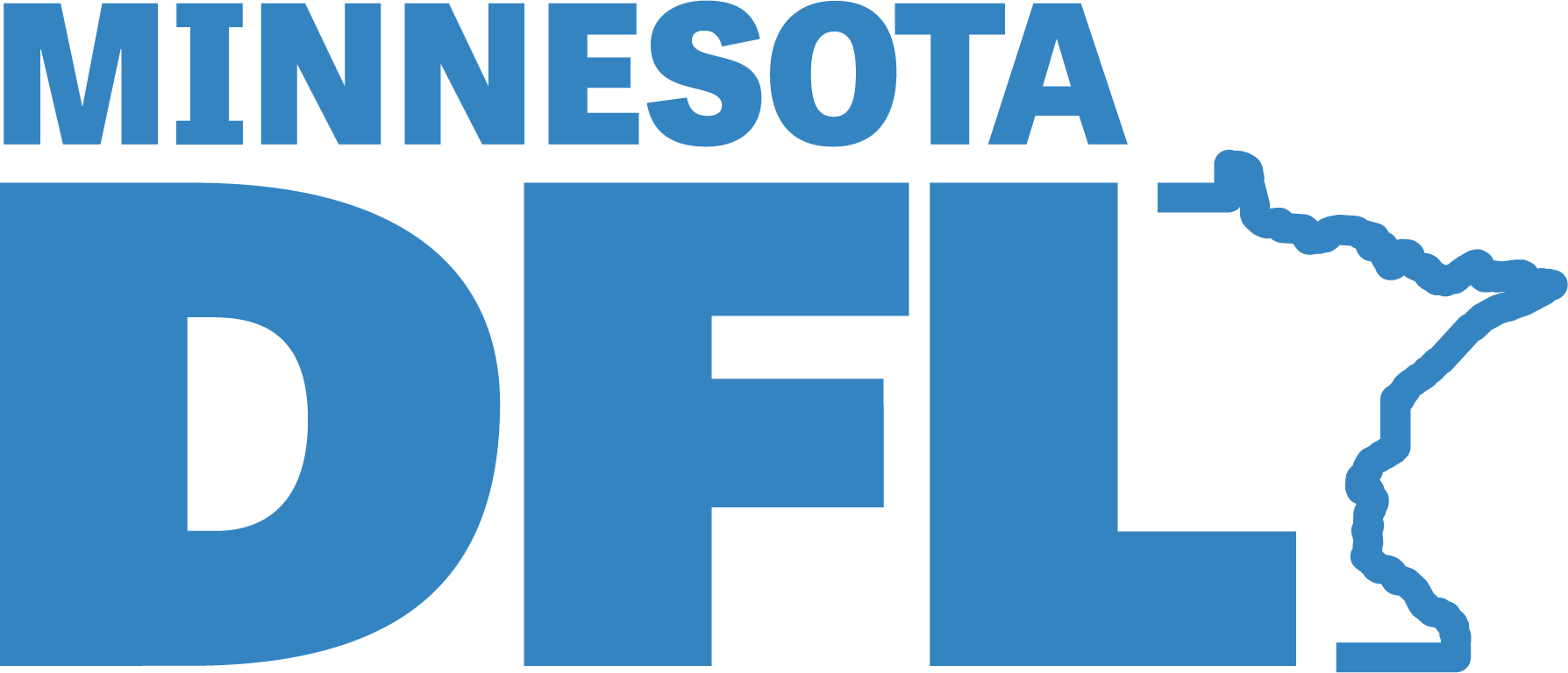 Logo of the Minnesota Democratic-Farmer-Labor Party